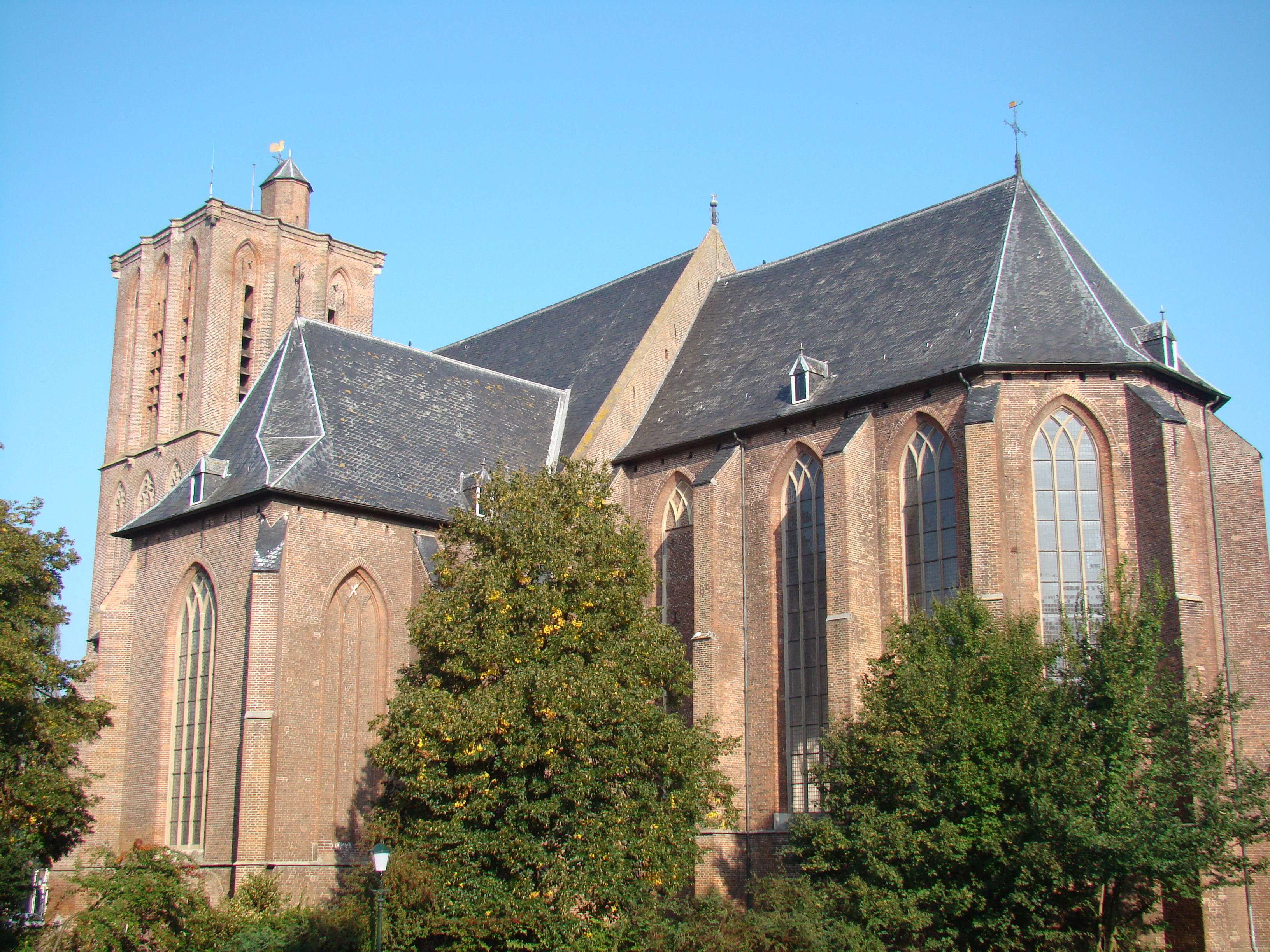 Grote or Sint-Nicolaaskerk. Elburg, The Netherlands